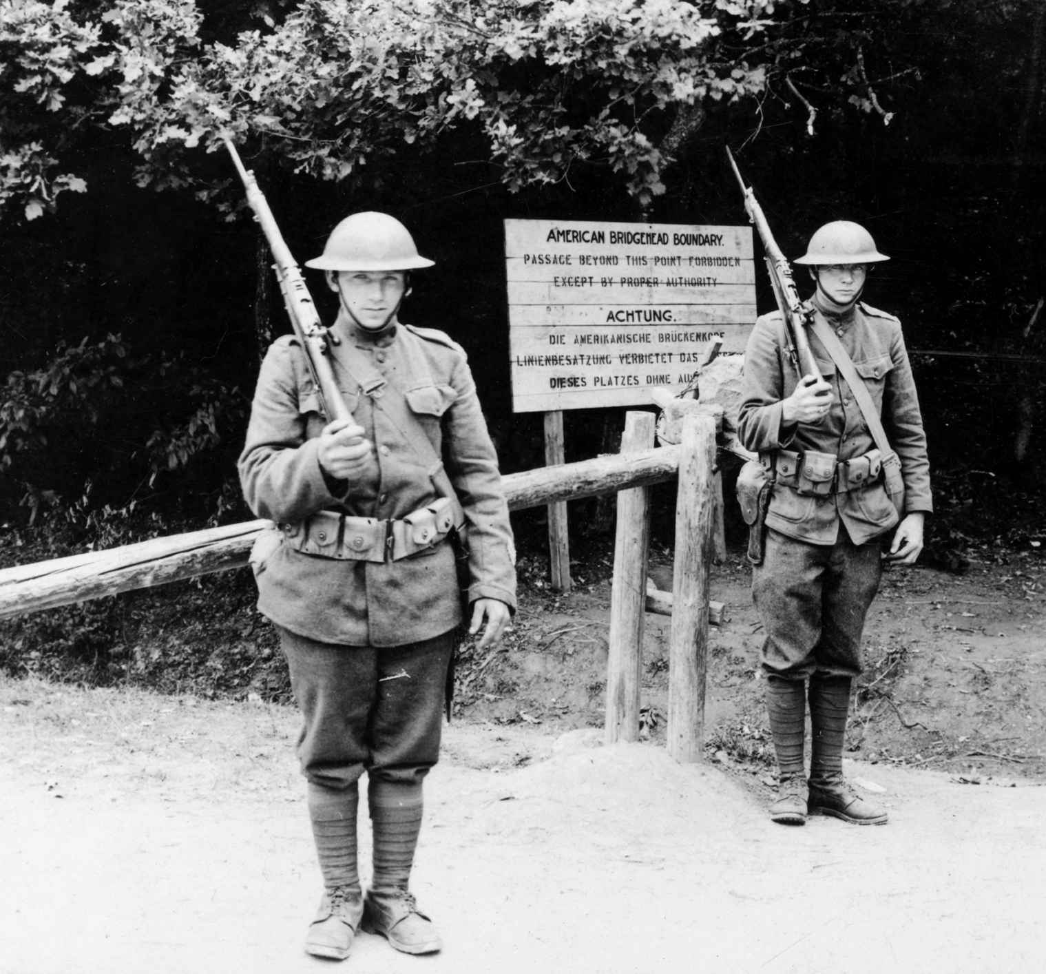 Two guards at the American Bridgehead Boundary at Montabaur, Rhineland-Palatinate (Germany), in 1919.